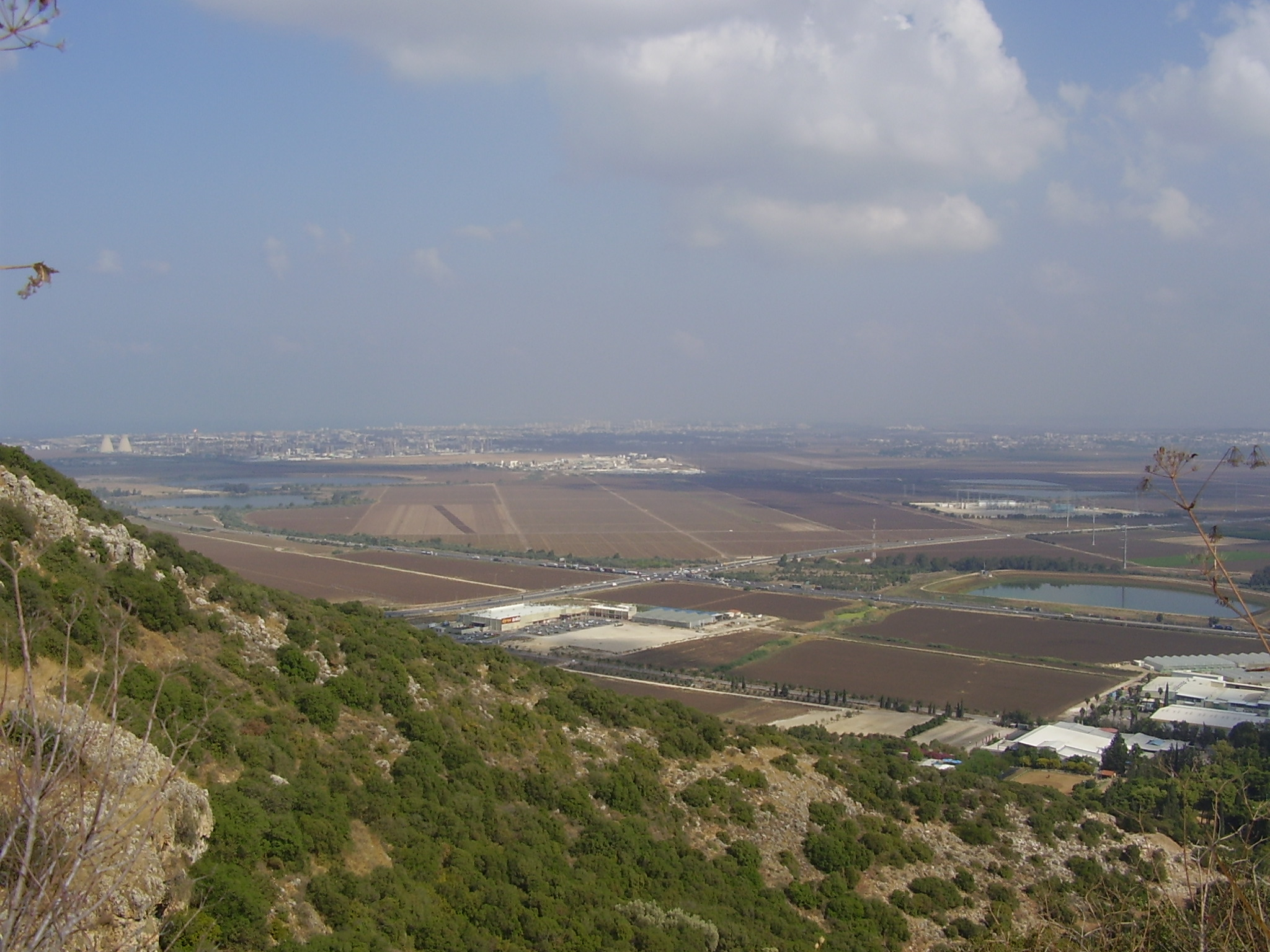 Zvulun Valley, israel